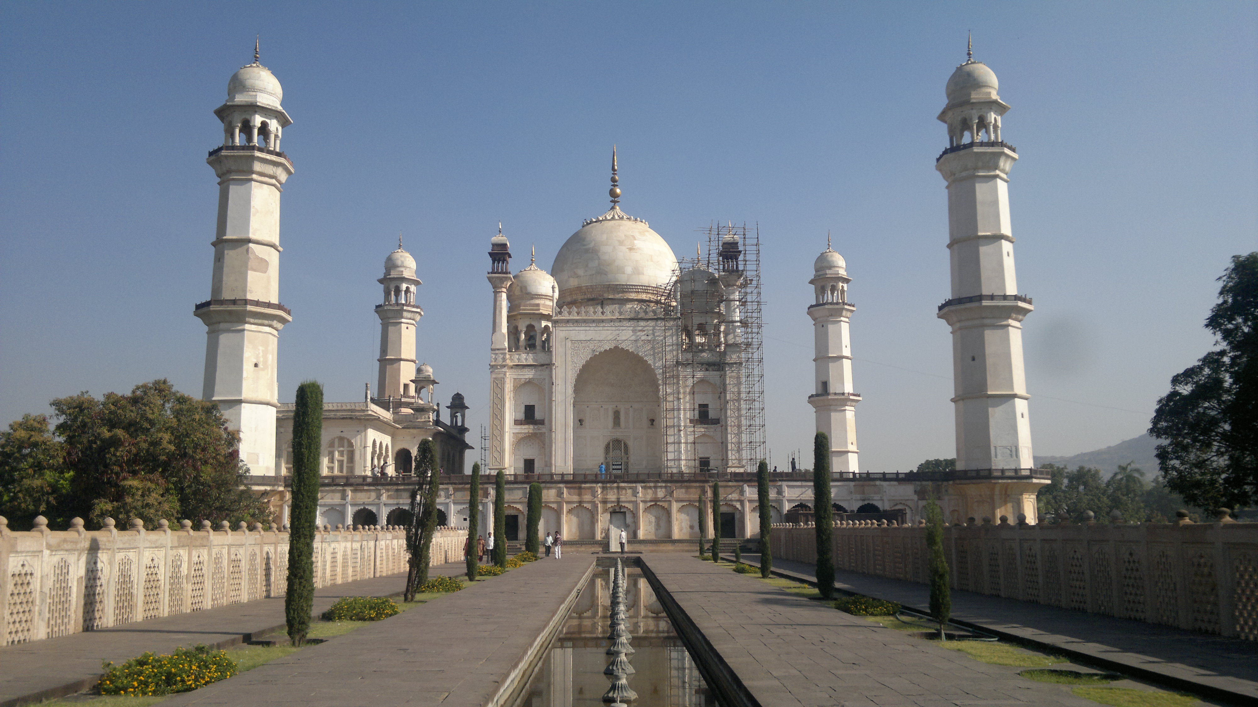 Tomb of Rabia Daurani (Bibi-Ka-Maqbara)